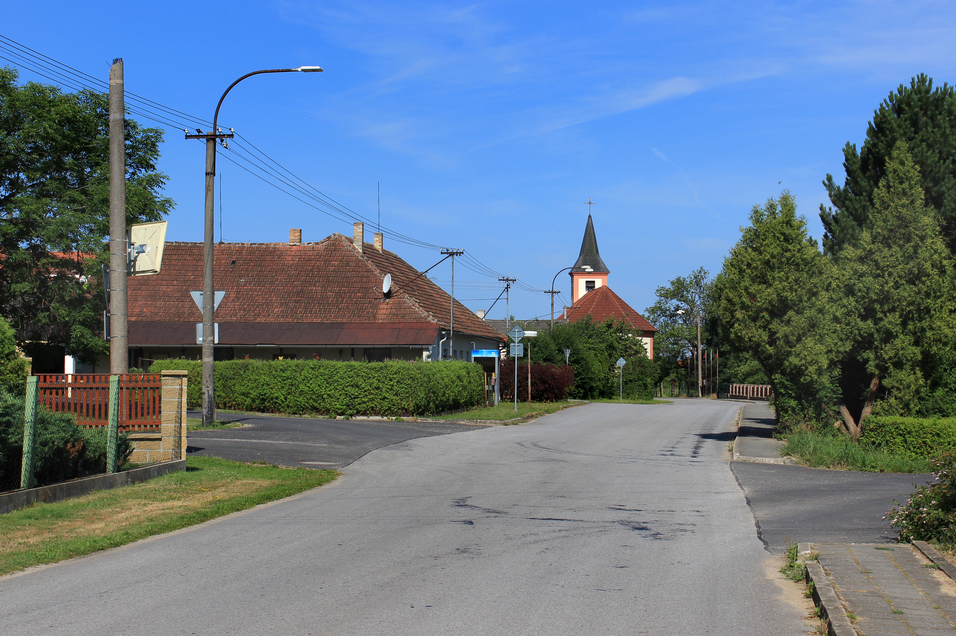 Main street in the village of Cep, Czech Republic.